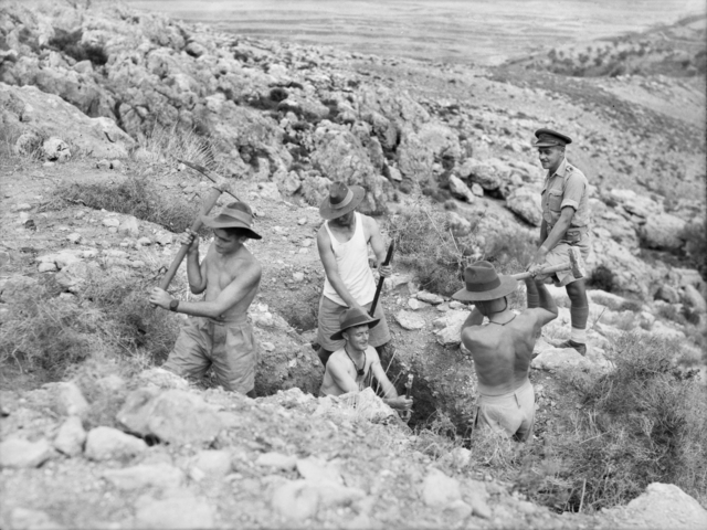 Australian soldiers from the 2/31st Battalion dig a section outpost during the Syria campaign in October 1941